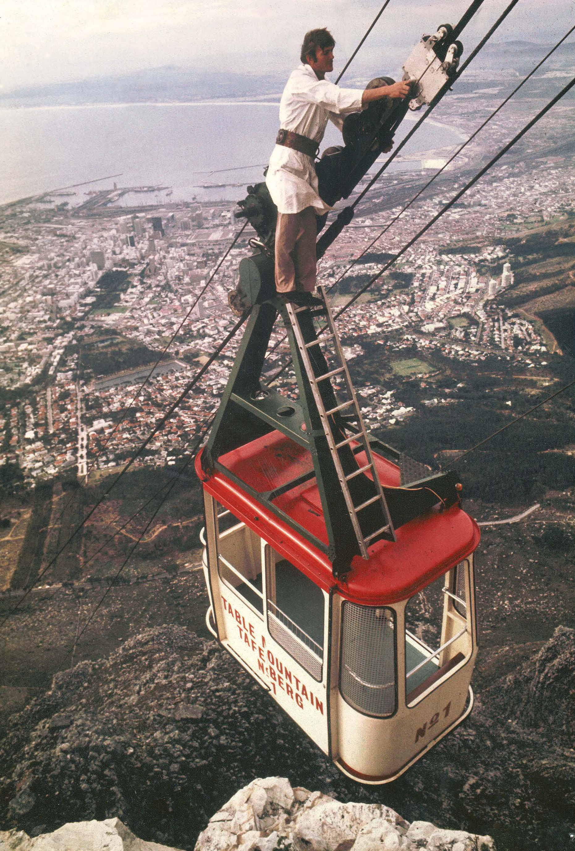 Mechanical engineer making some adjustments to the cable car with Cape Town in the background